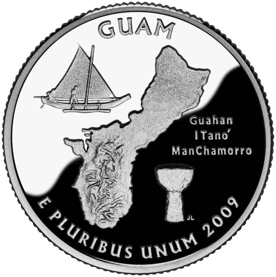 Guam state quarter. This image depicts a unit of currency issued by the United States of America. If Fraudulent use of this image is punishable under applicable counterfeiting laws. As listed by the United States Secret Service at money illustrations, the Counterfeit Detection Act of 1992, Public Law 102-550, in Section 411 of Title 31 of the Code of Federal Regulations (31 CFR 411), permits color illustrations of U.S. currency provided:1. The illustration is of a size less than three-fourths or more than one and one-half, in linear dimension, of each part of the item illustrated;2. The illustration is one-sided; and3. All negatives, plates, positives, digitized storage medium, graphic files, magnetic medium, optical storage devices, and any other thing used in the making of the illustration that contain an image of the illustration or any part thereof are destroyed and/or deleted or erased after their final use. Certain coins contain copyrights licensed to the U.S. Mint and owned by third parties or assigned to and owned by the U.S. Mint [1]. For the United States Mint circulating coin design use policy, see [2]; for the policy on the 50 State Quarters, see [3]. Also: COM:ART #Photograph of an old coin found on the Internet